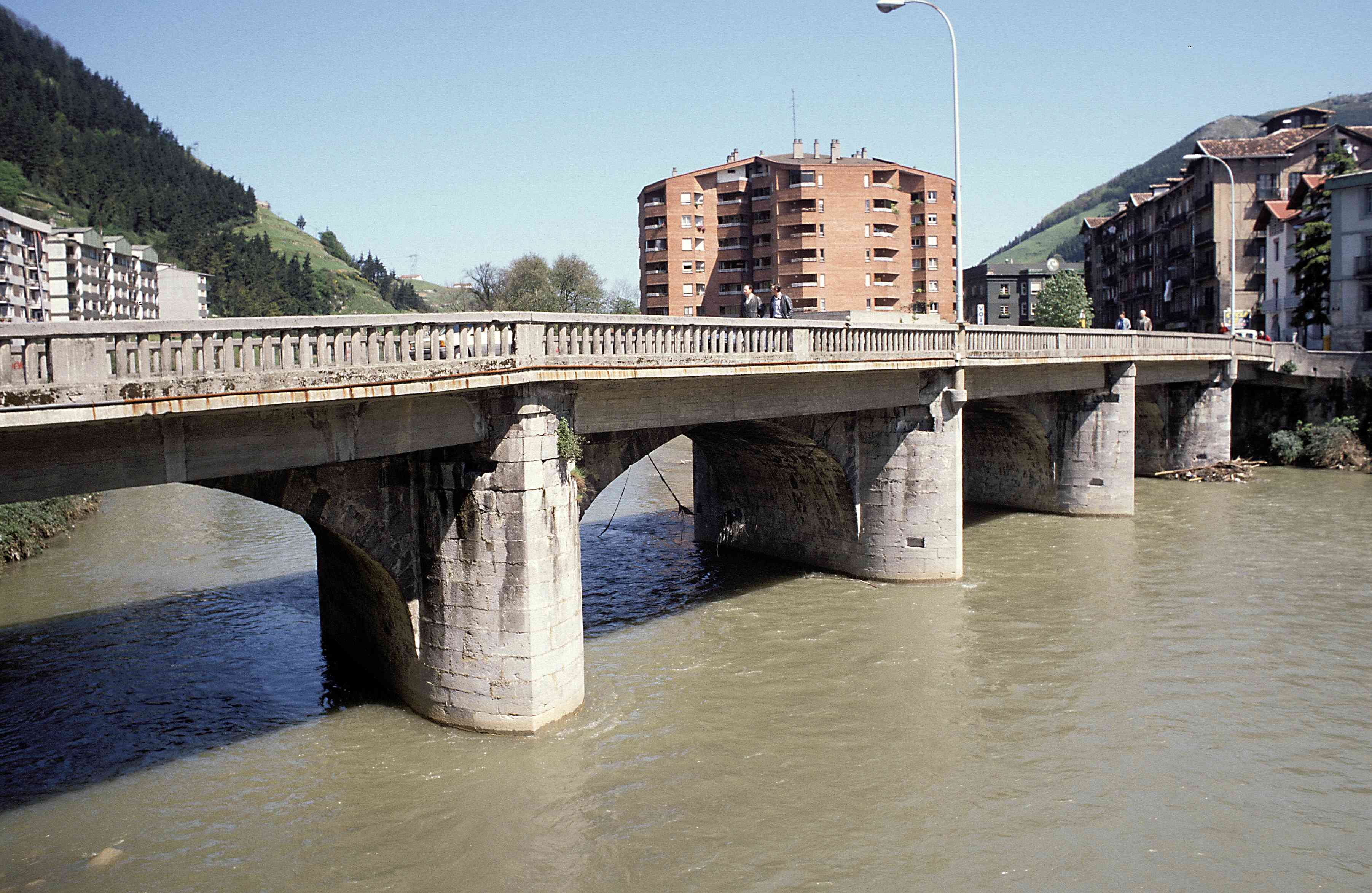 Bridge of Arramele, Tolosa. Gipuzkoa, Basque Country.